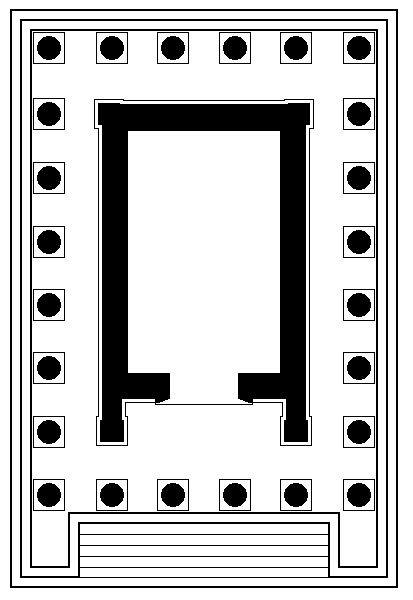 Reconstruction of the Garni temple, Armenia. The original building was from the late first century, and dedicated to Helios (in this context meaning the syncretic Helleno-Armenian cult of Helios-Mher). Following Armenia's conversion to Christianity, the building served as a summer residence of the Armenian monarchs. The structure was destroyed by an earthquake in 1679, and reconstructed from the ruins in the late 1960s-early 1970s.